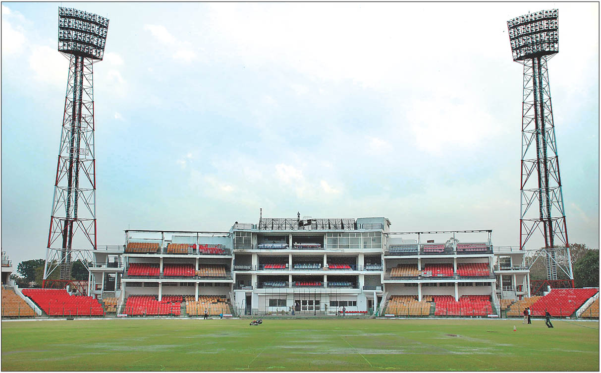 Captain Roop Singh Stadium Gwalior MP India